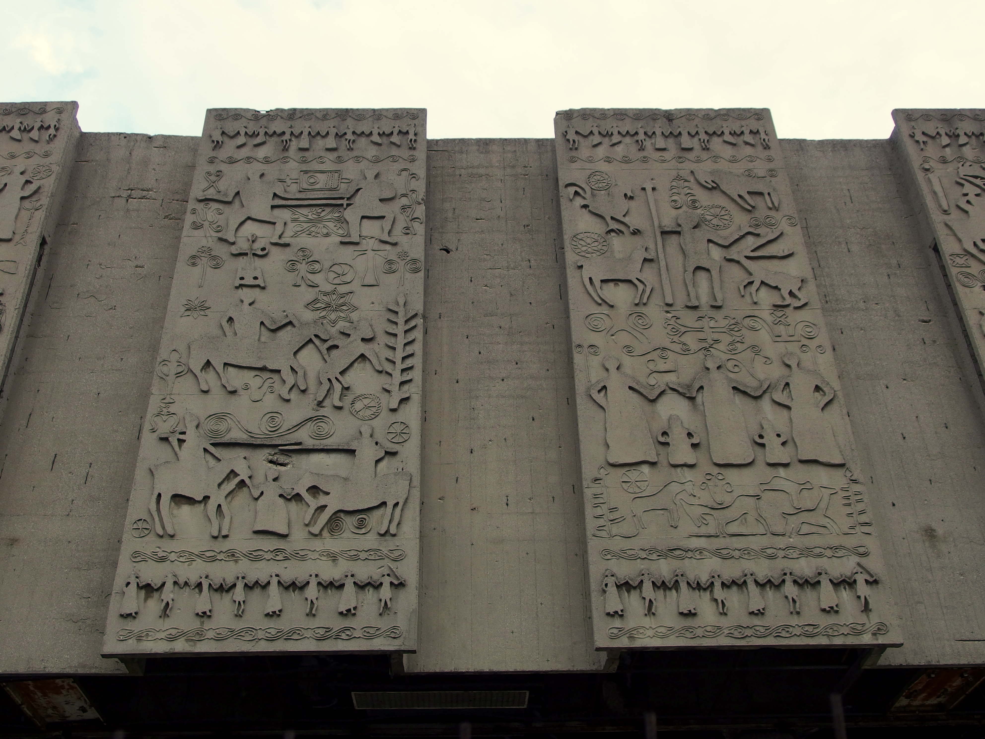 2013-06-06 in Mostar.